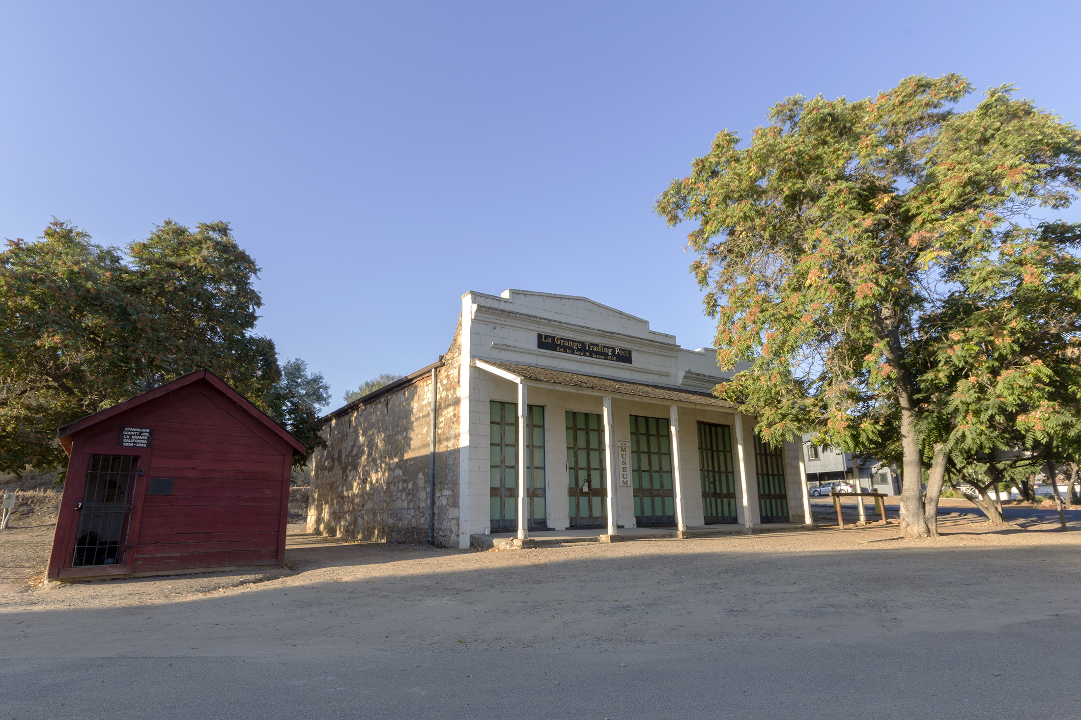 La Grange Stage Stop — in the La Grange Historic District, Stanislaus County, northern California